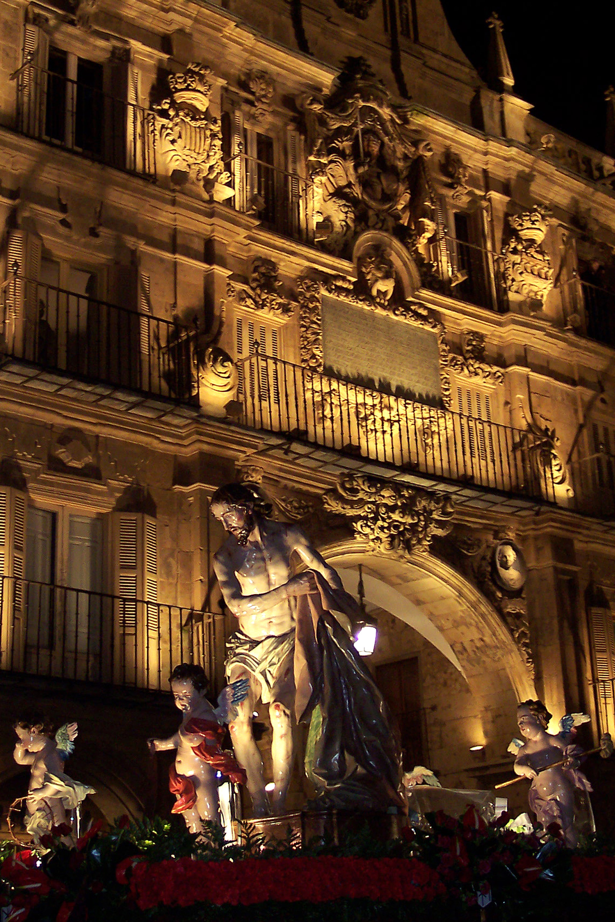 Jesus Flagellate, by Luis Salvador Carmona, Salamanca (Spain)